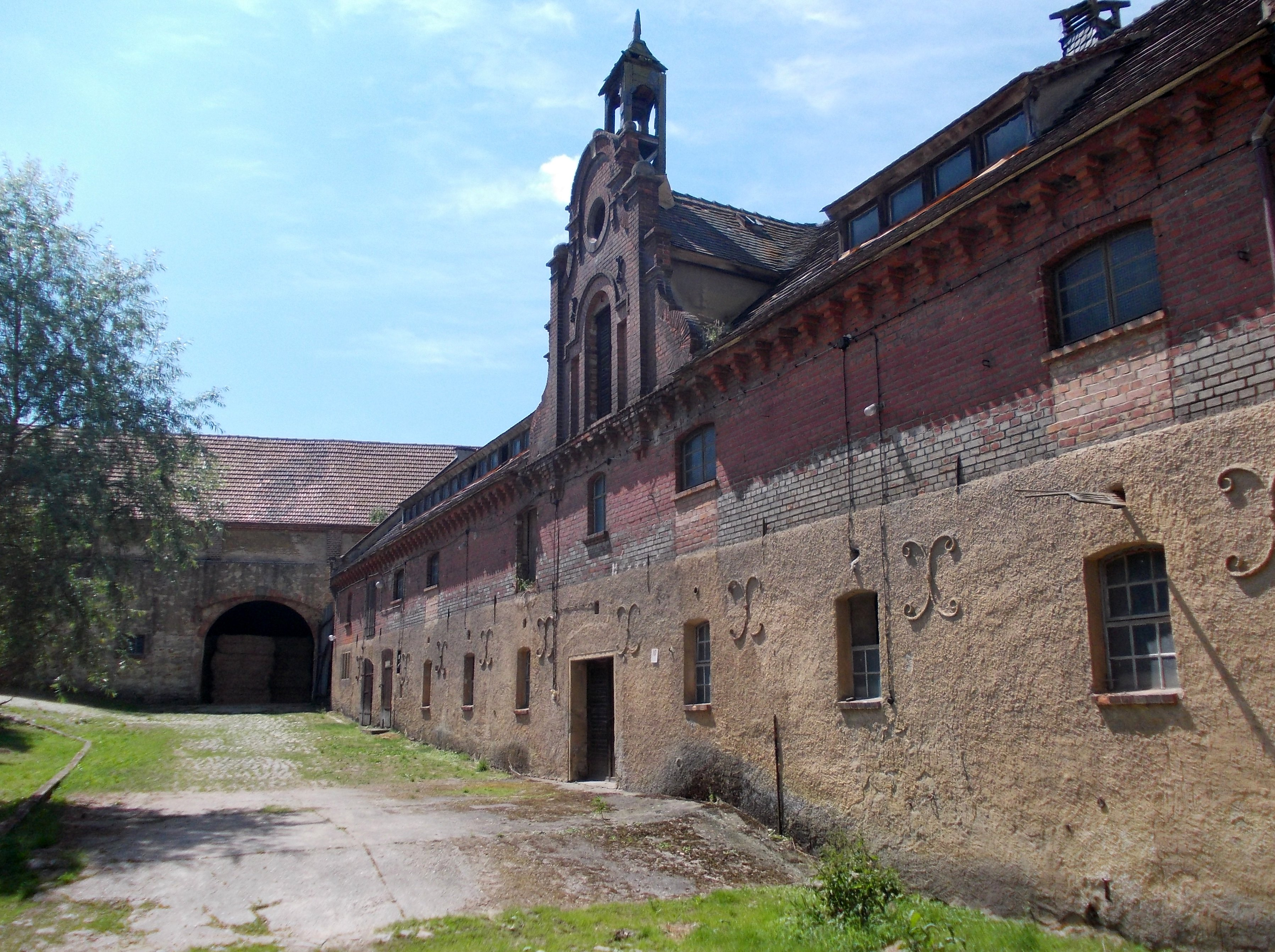 Pauscha estate (Mertendorf, district: Burgenlandkreis, Saxony-Anhalt)